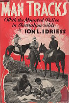 Cover of Ion Idriess' book Man Tracks